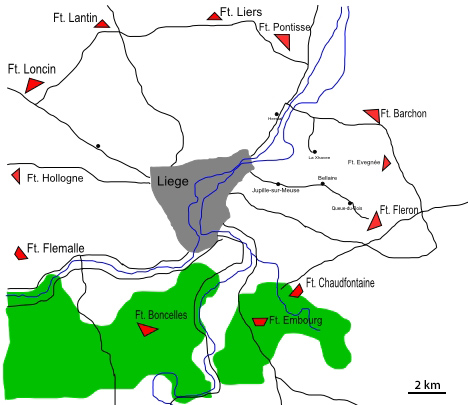 Schematic map of the fortresses around Liege, 1914